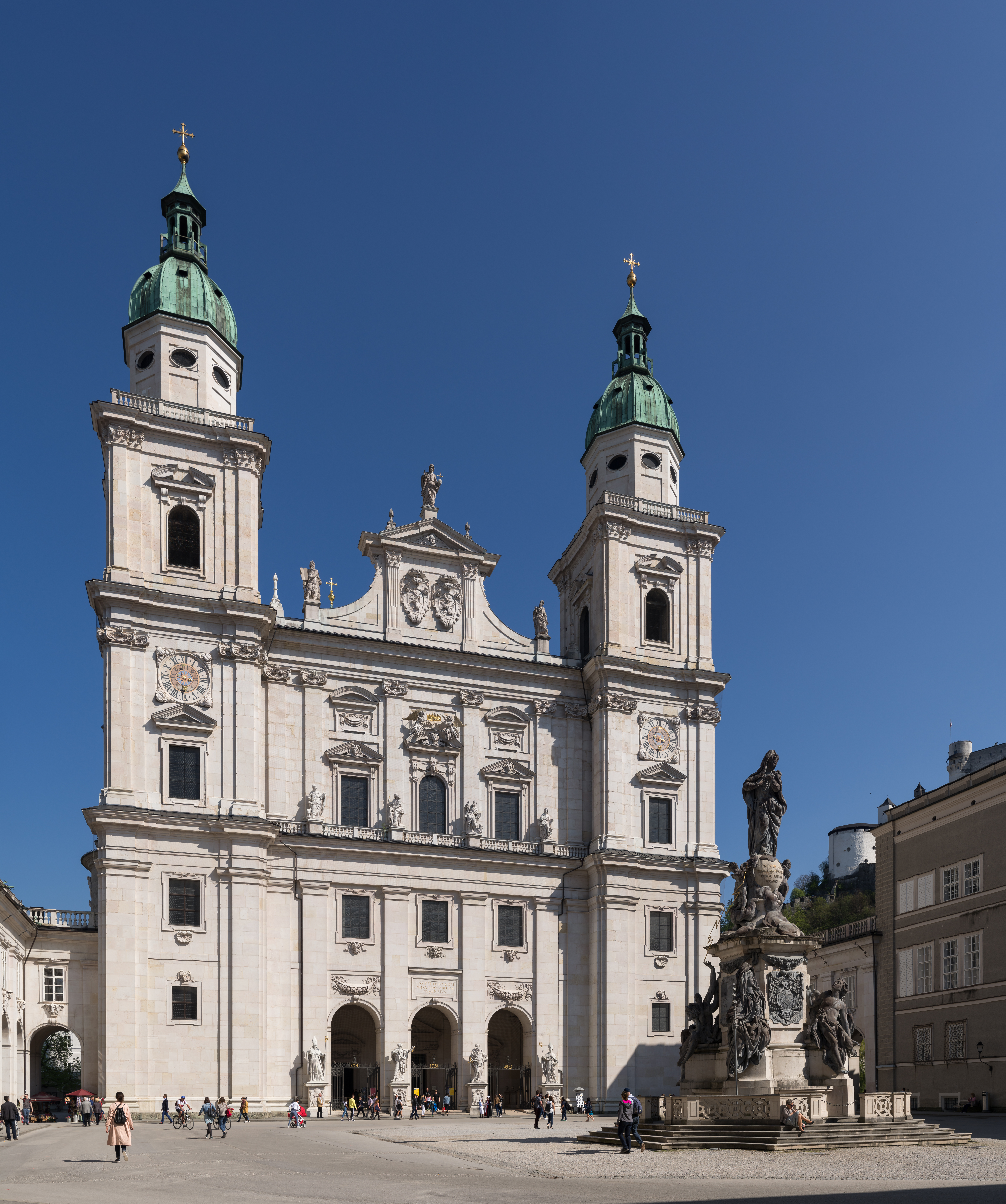 Façade of Salzburg Cathedral with Marian column, federal state of Salzburg, Austria